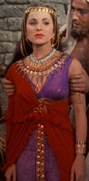 Cropped screenshot of Debra Paget and John Derek from the trailer for the film The Ten Commandments.